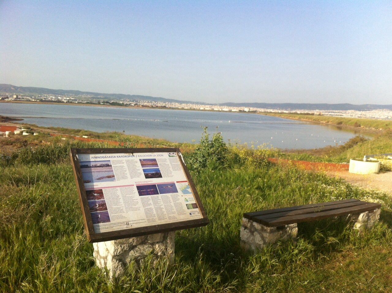 Delta National Park